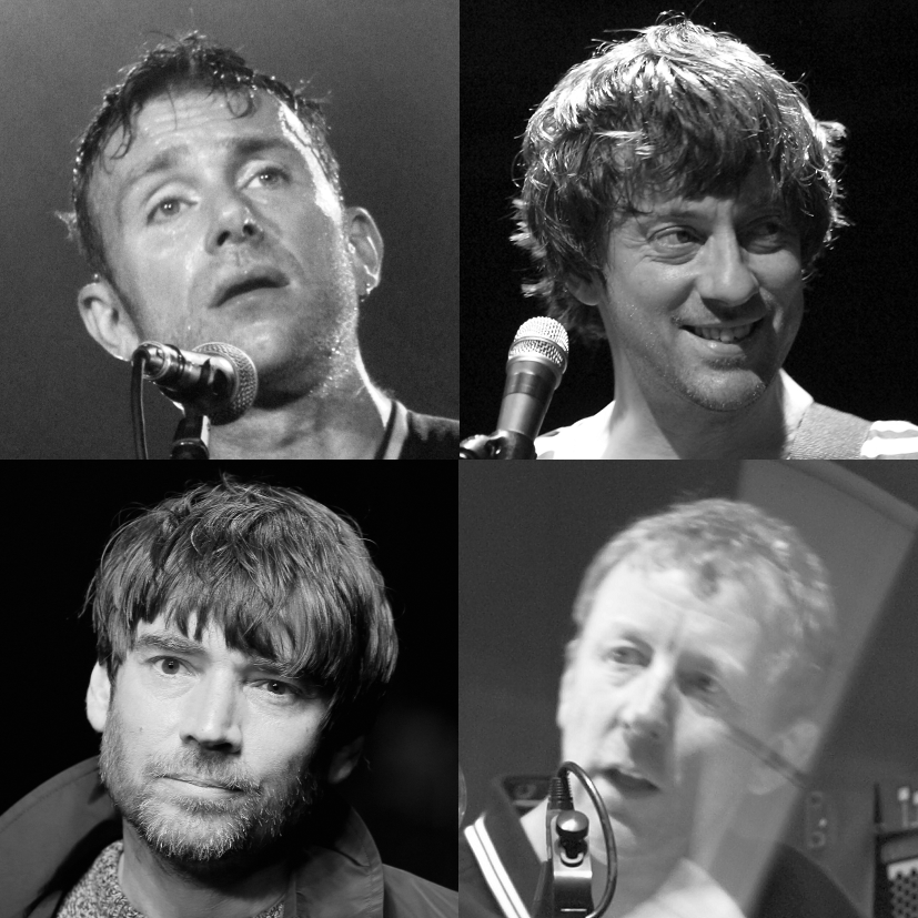 The four members of Blur: Albarn, Coxon, James and Rowntree